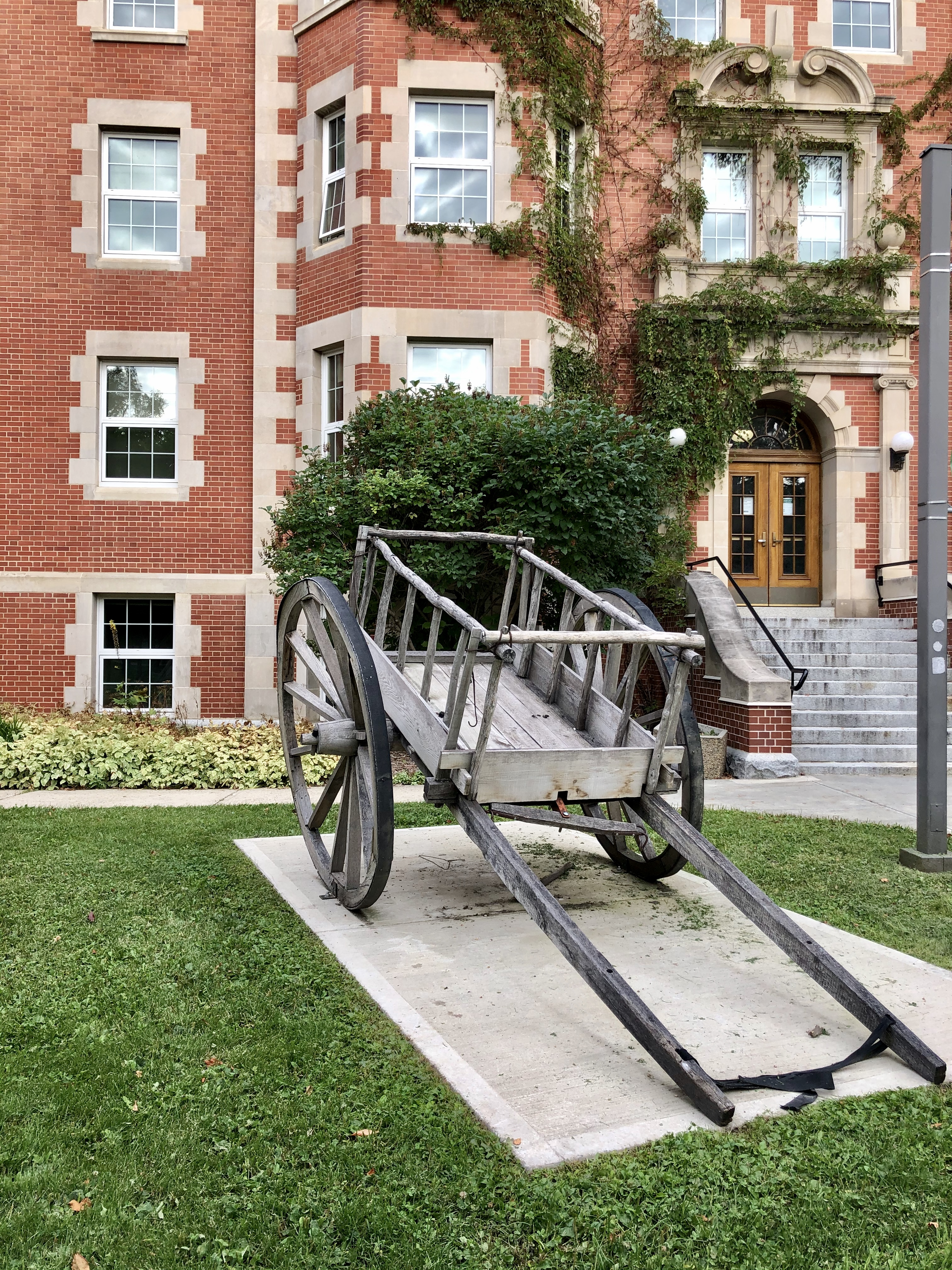 A full-size replica of a Red River Cart in front of Pembina Hall home of the University of Alberta Faculty of Native Studies. "The Red River Cart was a gift to the Faculty of Native Studies from the Métis Nation of Alberta, signifying the partnership between the MNA and the U of A + the Rupertsland Centre for Métis Research, and recognizing the presence of and contributions by Métis people at the university. It was officially revealed on November 17, 2015, following RCMR's inaugural MétisTalks." (from retrieved on August 17, 2020)